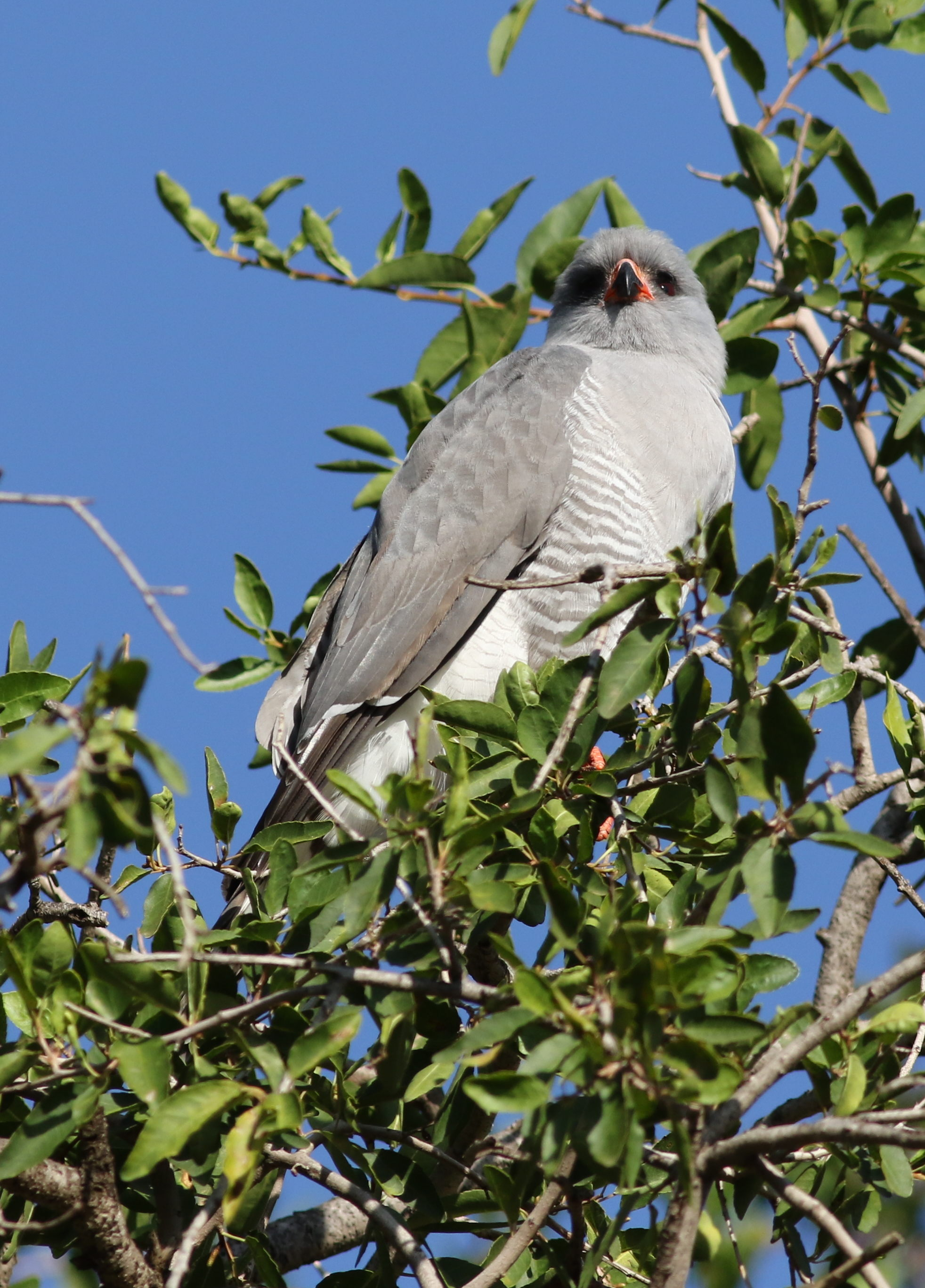 Gabar goshawk, Micronisus gabar, at Pilanesberg National Park, Northwest Province, South Africa